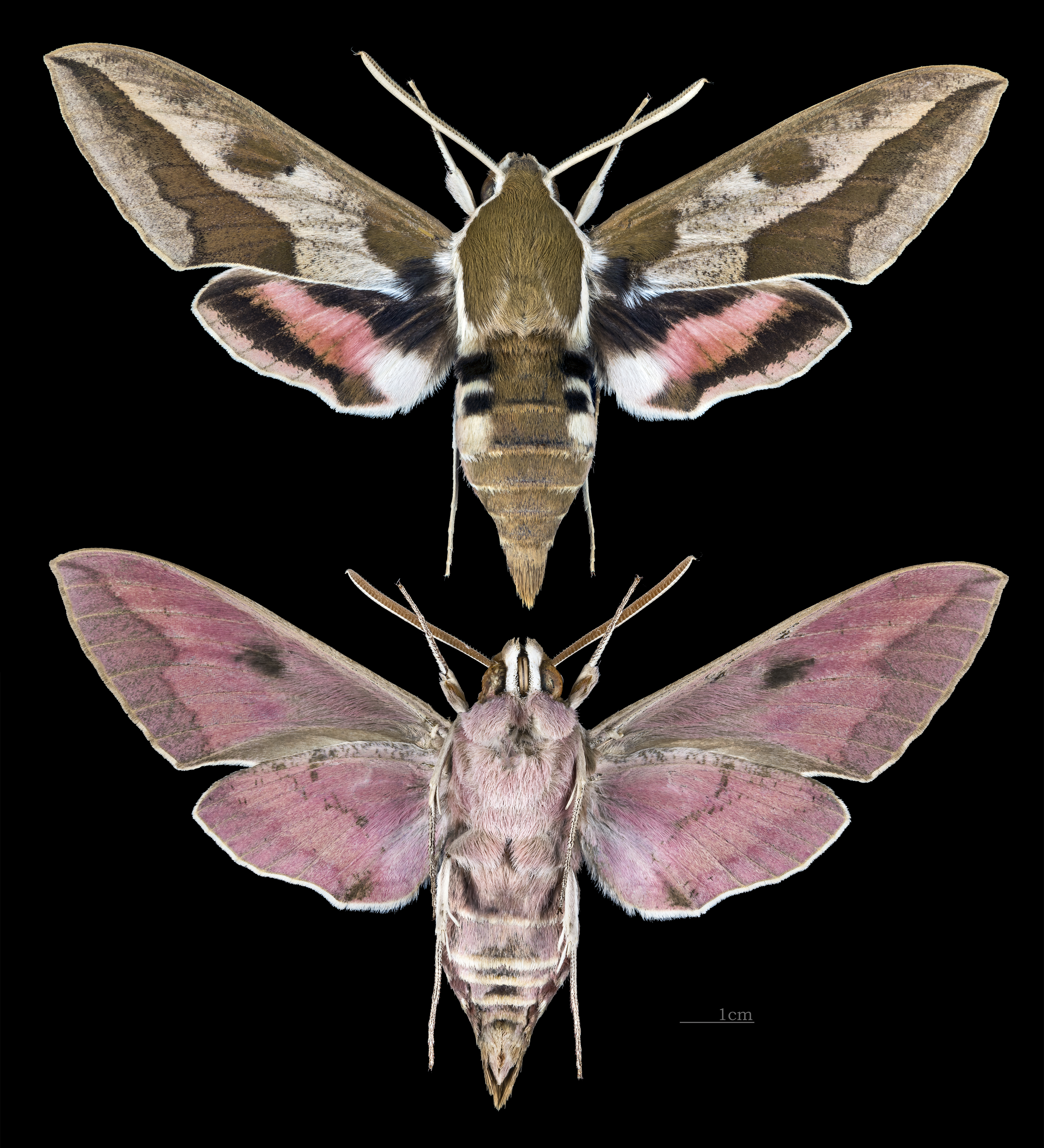 Spurge Hawk-moth - Two views of same specimen Collection of the Mathematician Laurent Schwartz